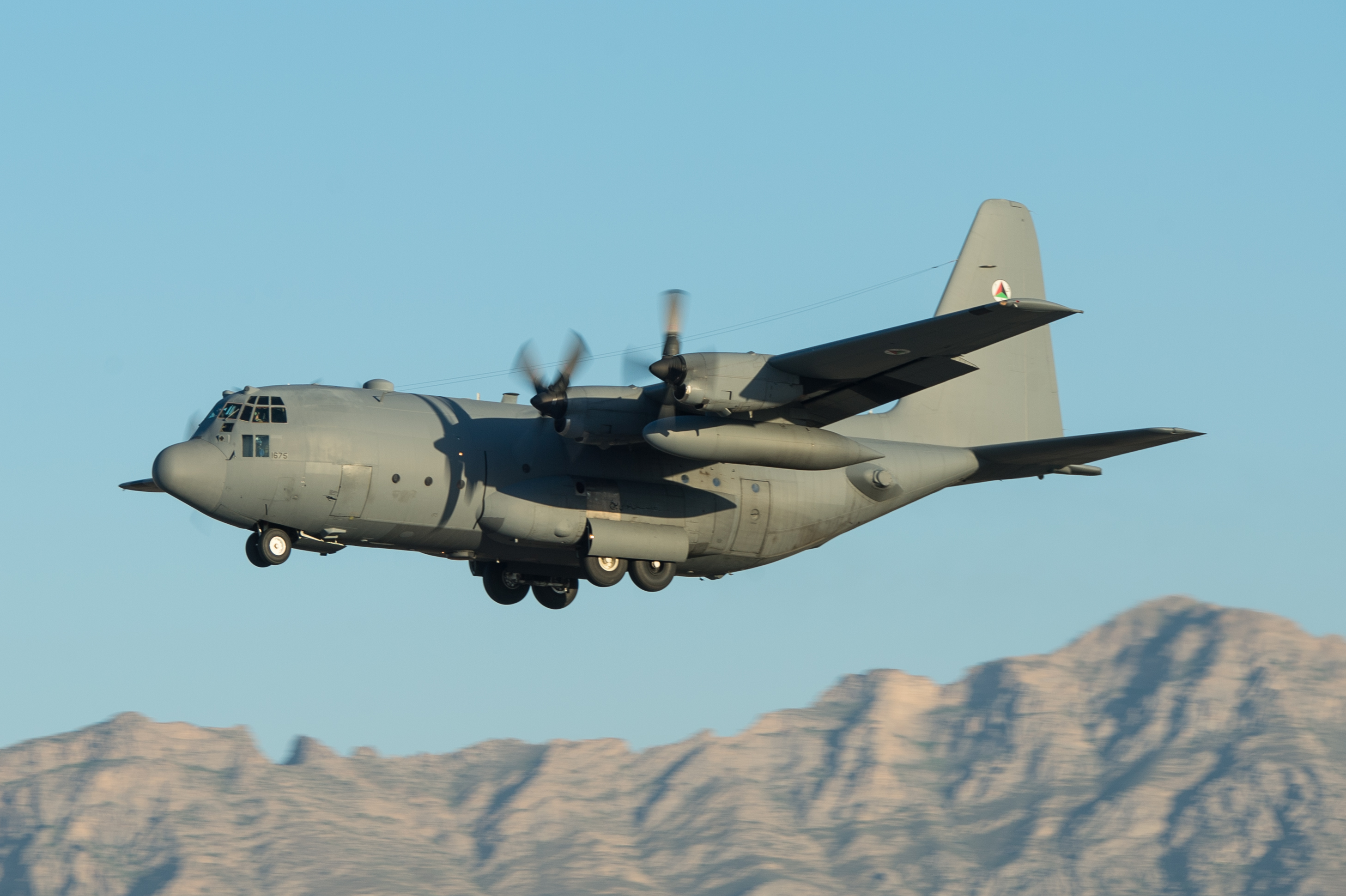 An Afghan Air Force C-130H Hercules aircraft takes off from Bagram Air Field, Afghanistan, May 13, 2015. The aircraft's short takeoff and landing capability makes it an optimum fit for Afghanistan’s rugged terrain. (U.S. Air Force photo by Tech. Sgt. Joseph Swafford/Released)